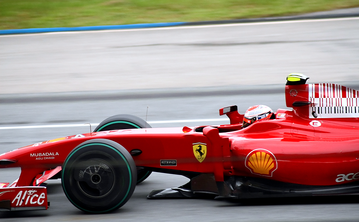 Kimi Räikkönen at 2009 Malaysian Grand Prix, Sepang, Malaysia.